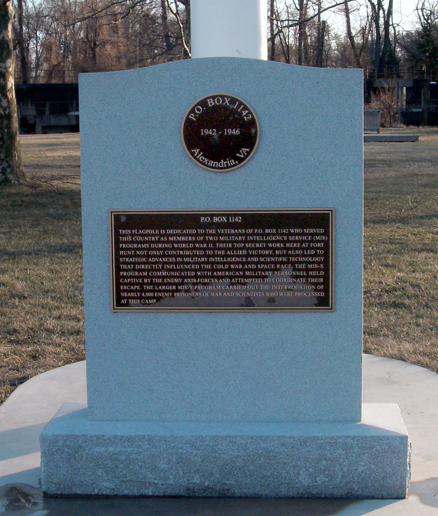 Lightened and cropped from an image I took for Wikipedia